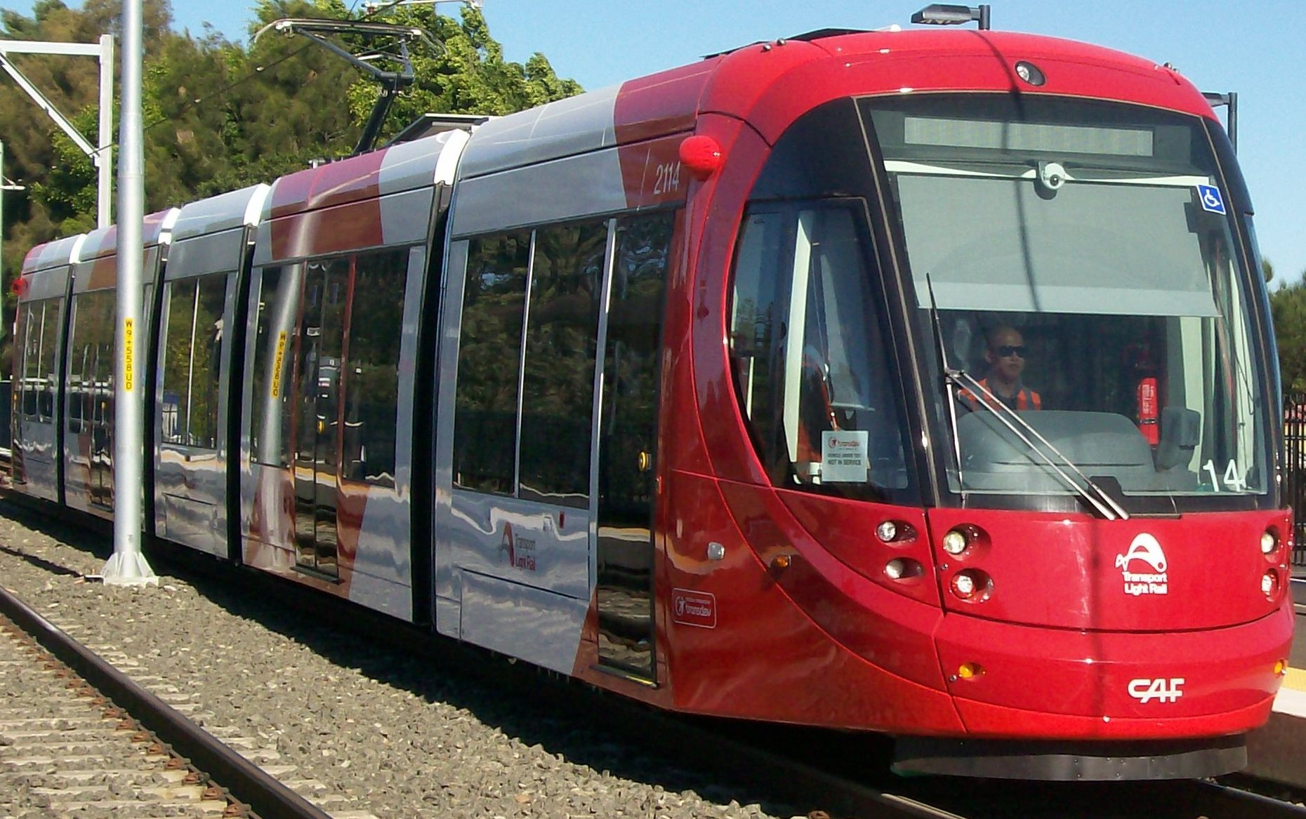 CAF Urbos 3 Sydney Light Rail